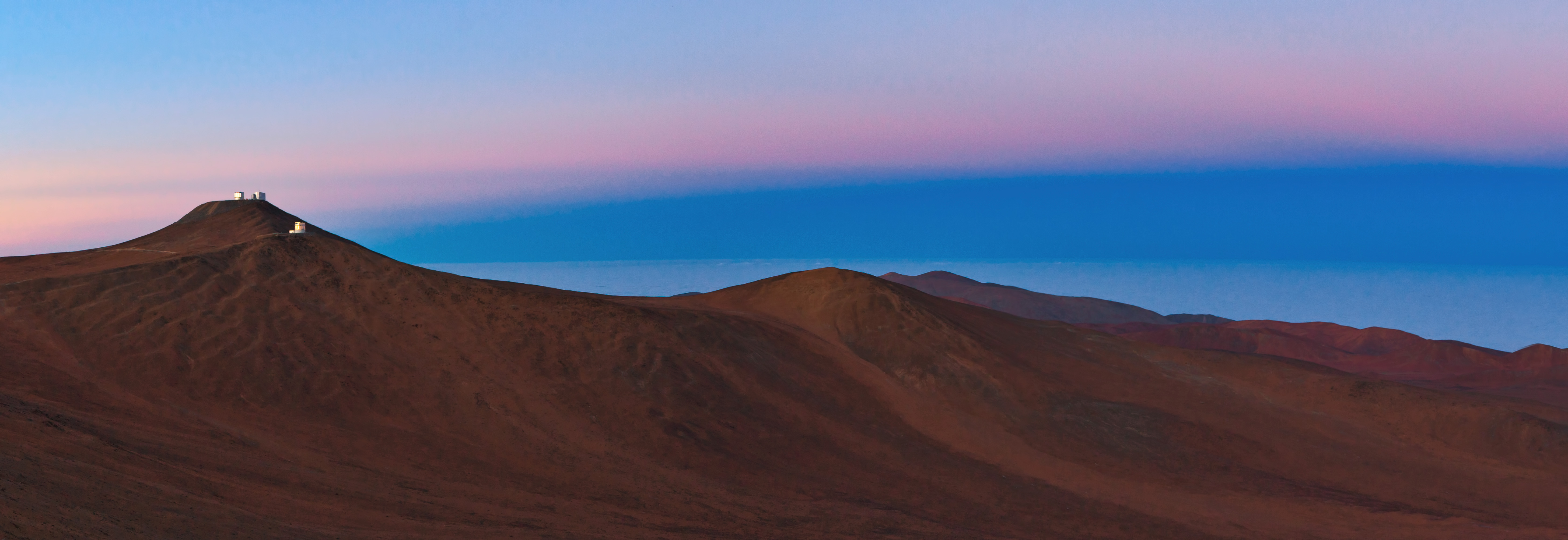 ESO Photo Ambassador, Babak Tafreshi has taken another outstanding panoramic photograph of ESO’s Paranal Observatory. In the foreground is the dramatic, mountainous landscape of the Atacama Desert. On the left, on the highest peak, is the ESO Very Large Telescope (VLT), and in front of it, on a slightly lower peak, is the VISTA telescope (Visible and Infrared Survey Telescope for Astronomy). In the background, the sunrise colours Paranal’s sky with a beautiful pastel palette. Extending beyond the horizon, the sea of clouds over the Pacific Ocean — which lies only 12 kilometres from Paranal — is visible. Above the horizon, where the sea of clouds meets the sky, a dark band can be seen. This dark band is the Earth’s shadow, cast by the planet onto its atmosphere. This phenomenon can sometimes be seen around the times of sunset and sunrise, if the sky is clear and the horizon is unobstructed — conditions that are certainly met in Paranal Observatory. Above the Earth’s shadow is a pinkish glow known as the Belt of Venus. It is caused by light from the rising (in this case) or setting Sun being scattered by the Earth’s atmosphere.